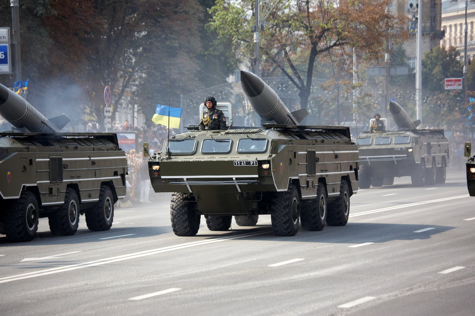 Ukrainian OTR-21 Tochka TELs during the Independence Day parade in Kiev, Ukraine in 2008.